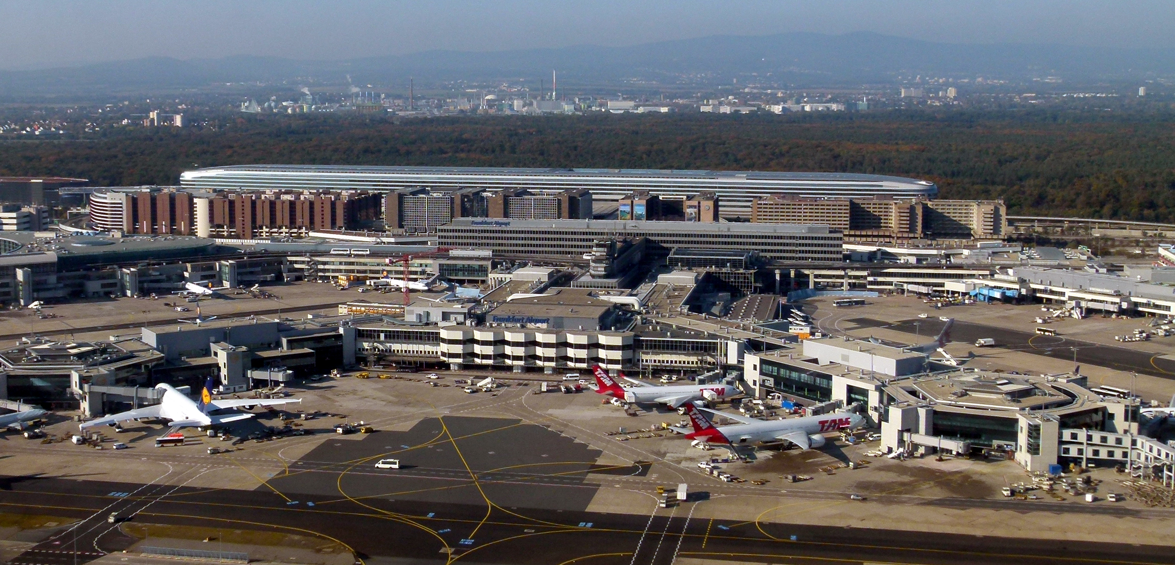 Aerial View of Frankfurt Airport